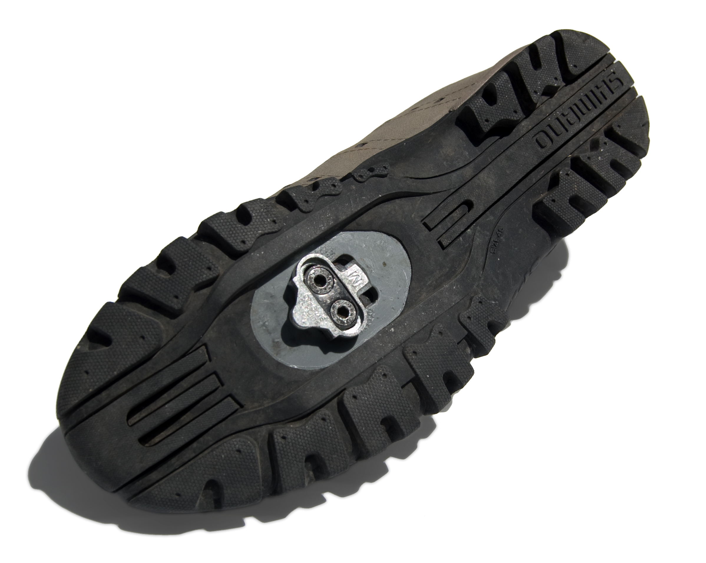 A Shimano MT31 cycling shoe with a SH56 SPD (Shimano Pedaling Dynamics) cleat attached. The MT31 is an entry-level shoe, with a versatile tread designed for walking on a variety of surfaces.